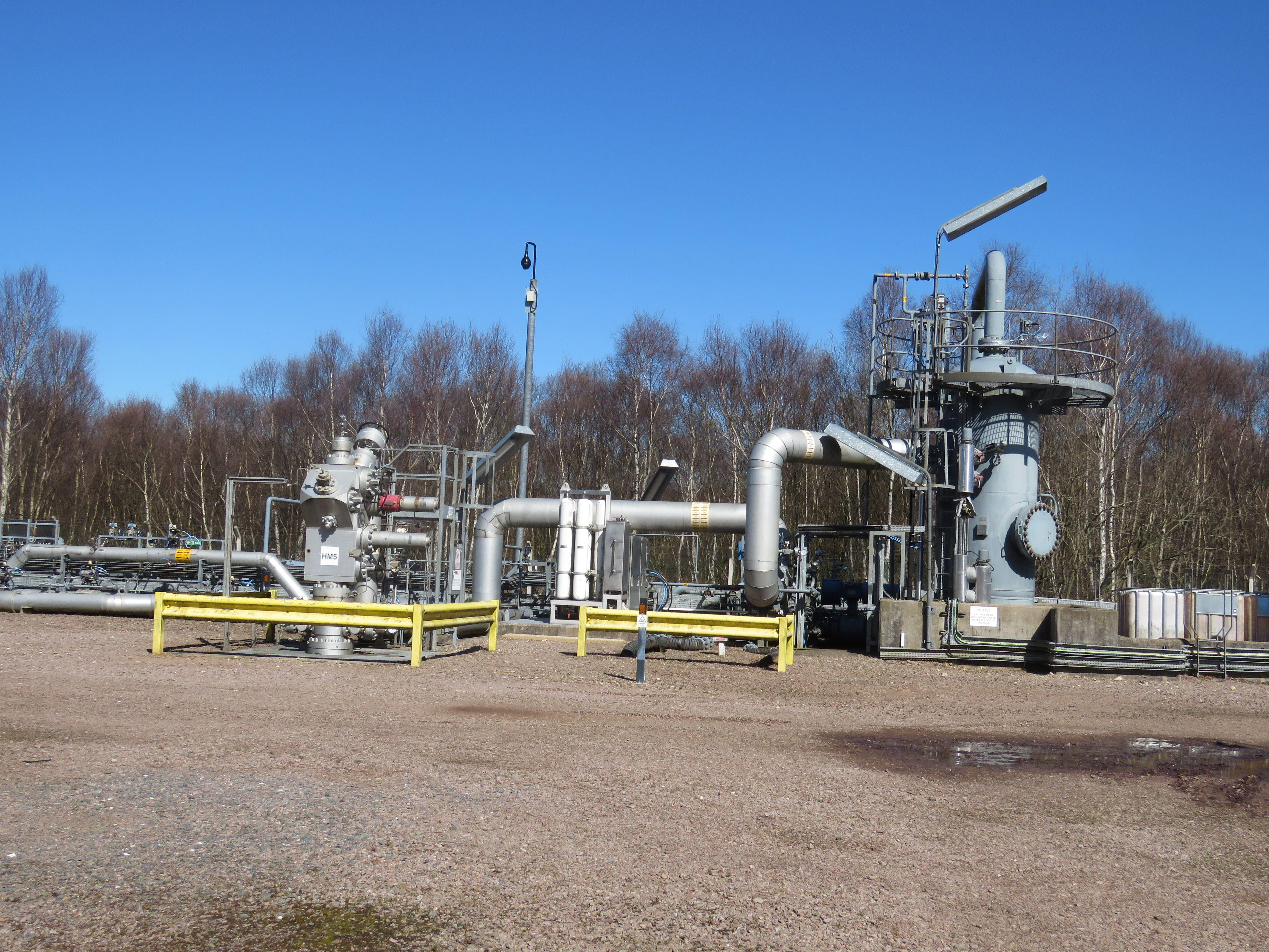 Part of the Hatfield Moors gas wellhead facility, England, showing the knock-out pot (right) and one of three well heads (left).